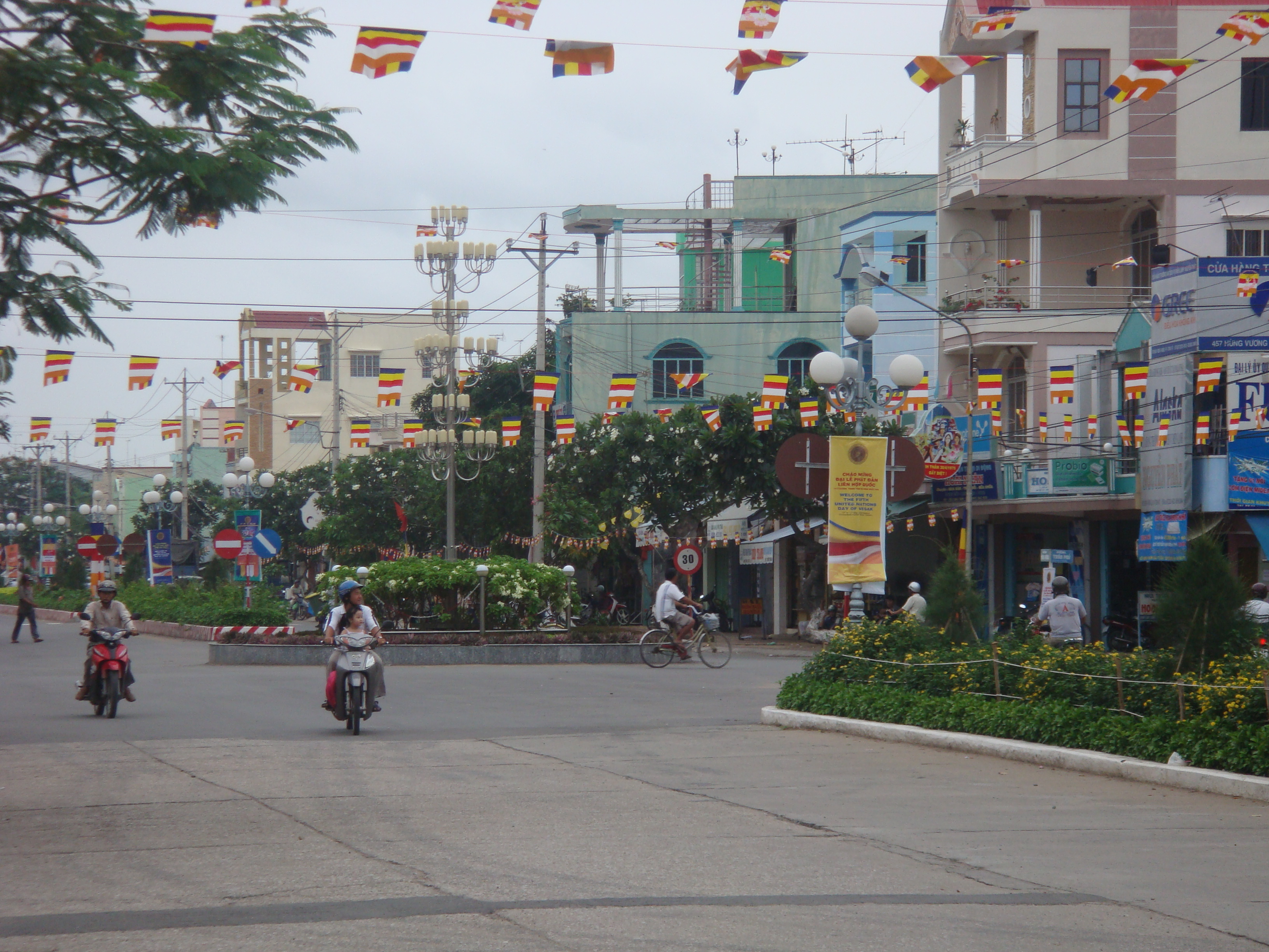 The Hung Vuong Street in Sa Dec Town